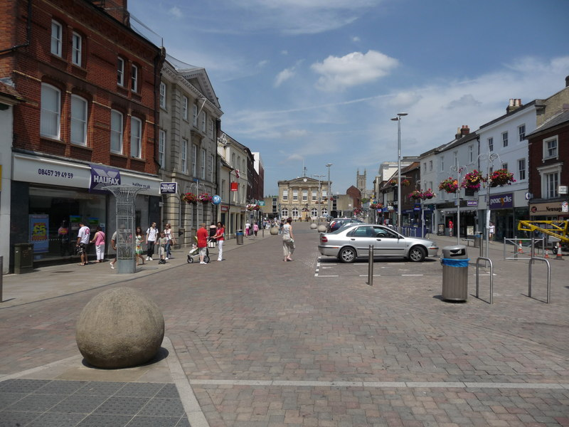 Andover - High Street, near to Andover, Hampshire, Great Britain. Looking up the High Street towards the Guildhall.